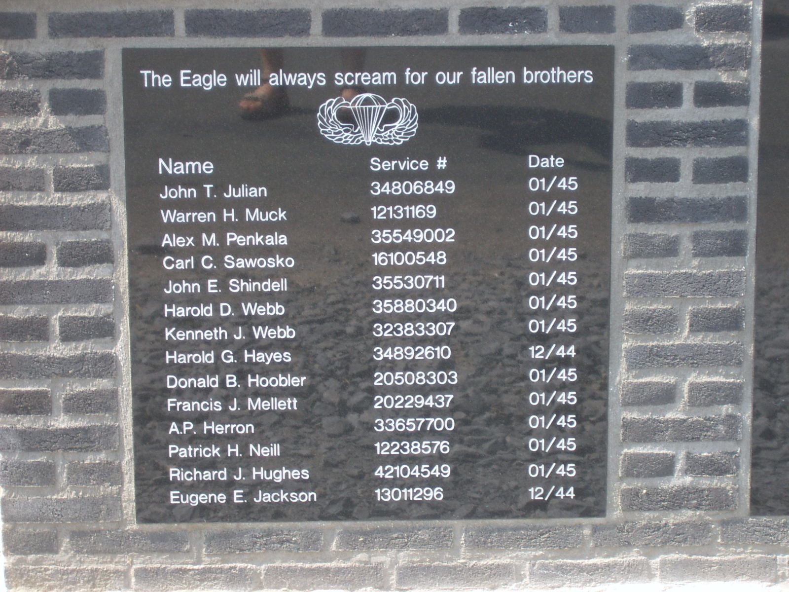 Monument for the easy Company, Foy, Bastogne Personal picture, I set it in public domain. Vberger 11:23, 22 July 2006 (UTC)